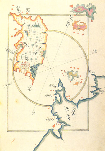 Map of Rhodes and Marmaris made by Turkish Admiral Piri Reis appearing in his maritime guide-book of 1528, Kitab-i Bahriye. Original is in Nuruosmaniye Library in Istanbul, Turkey.